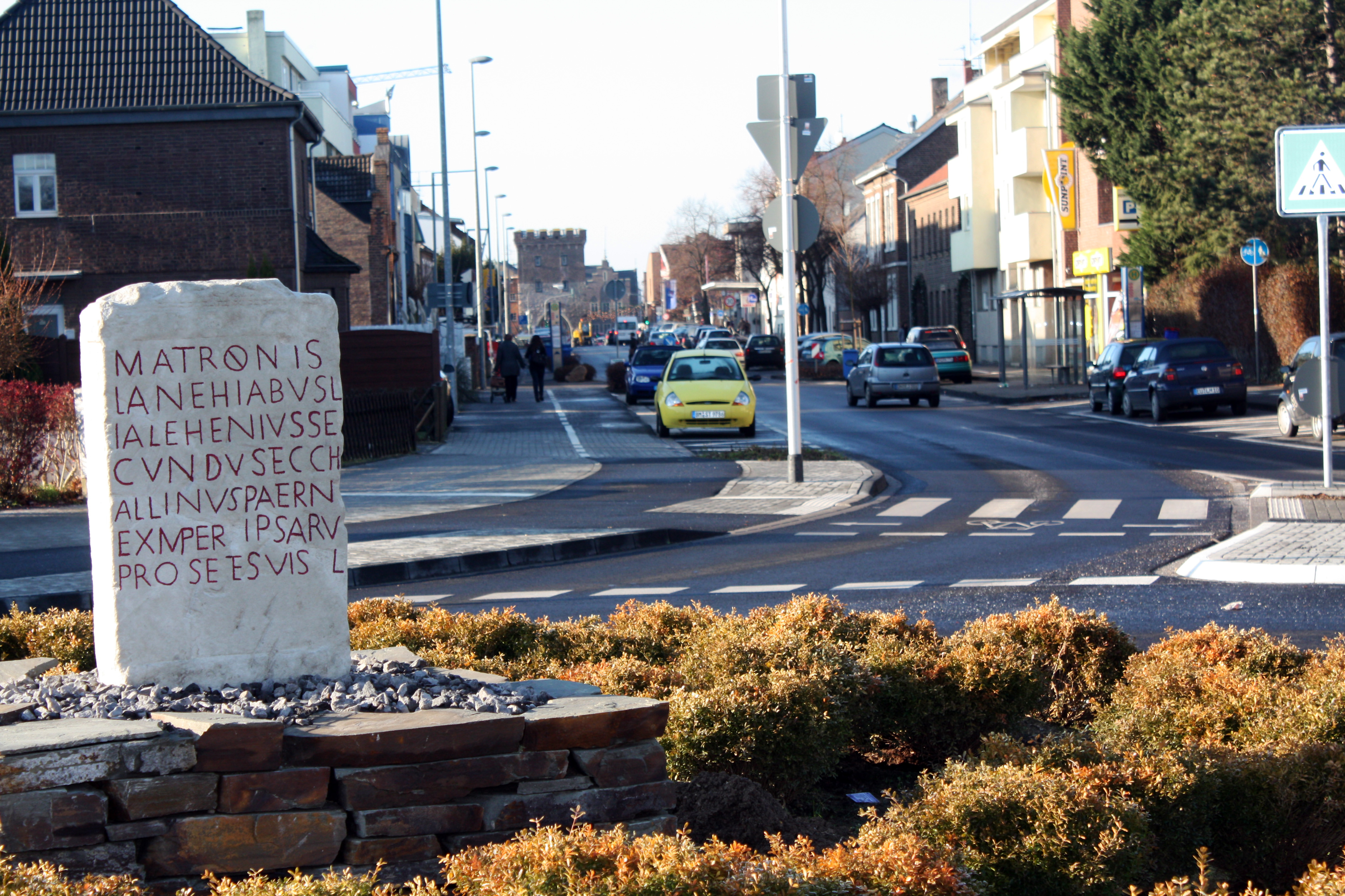 Roundabout traffic in Lechenich, North Rhine-Westphalia Germany